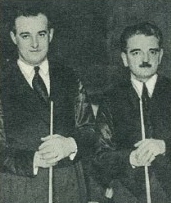 René Gabriëls & Théo Moons at the 1933 European Bulkline 47-2 Championships